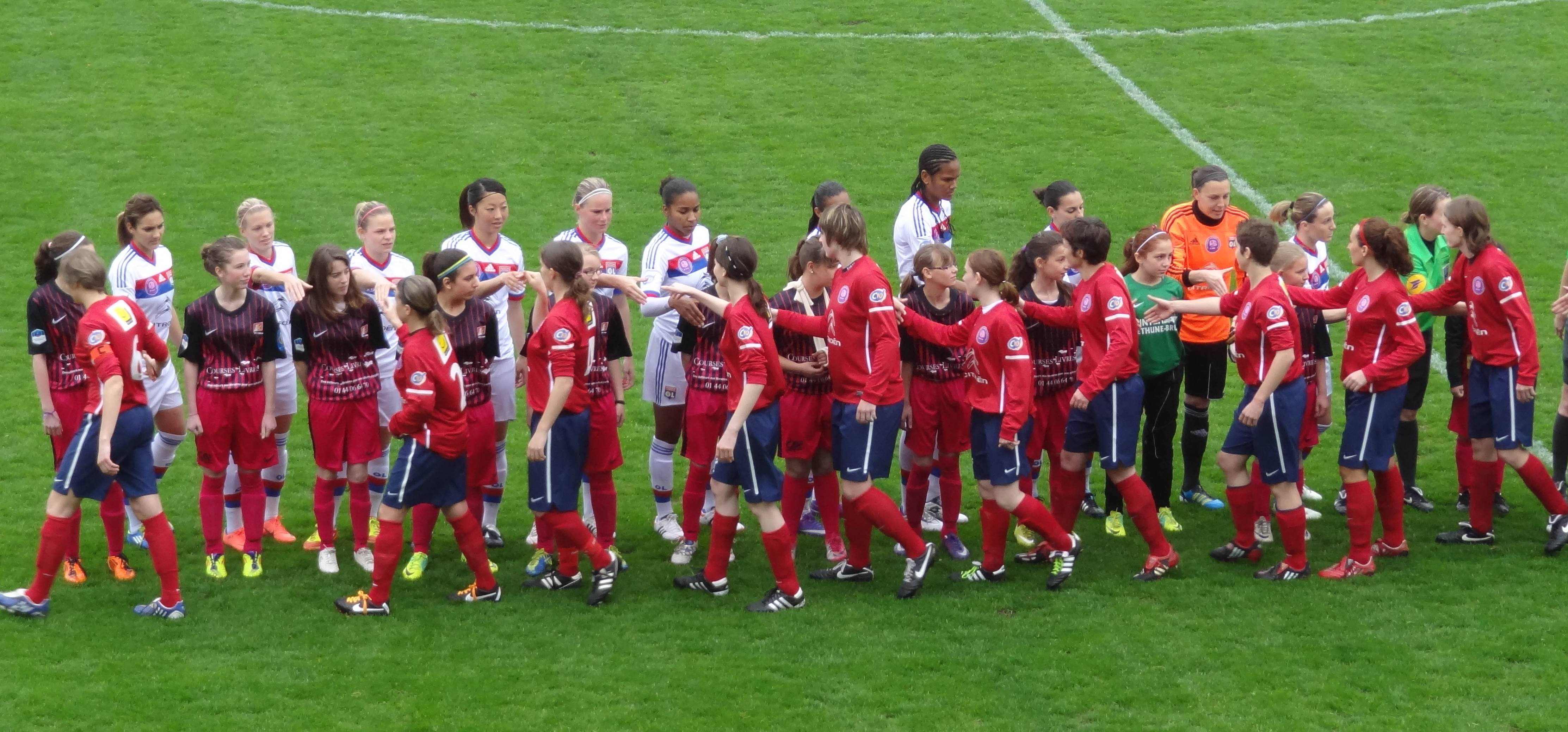 Arras vs Olympique Lyonnais (Coupe de France 2011-2012)